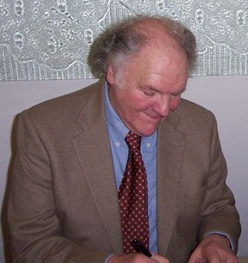 English actor David Jackson, "Gan" in the Blake's 7 television programme, at the Blake's 7 Series 2 DVD launch.